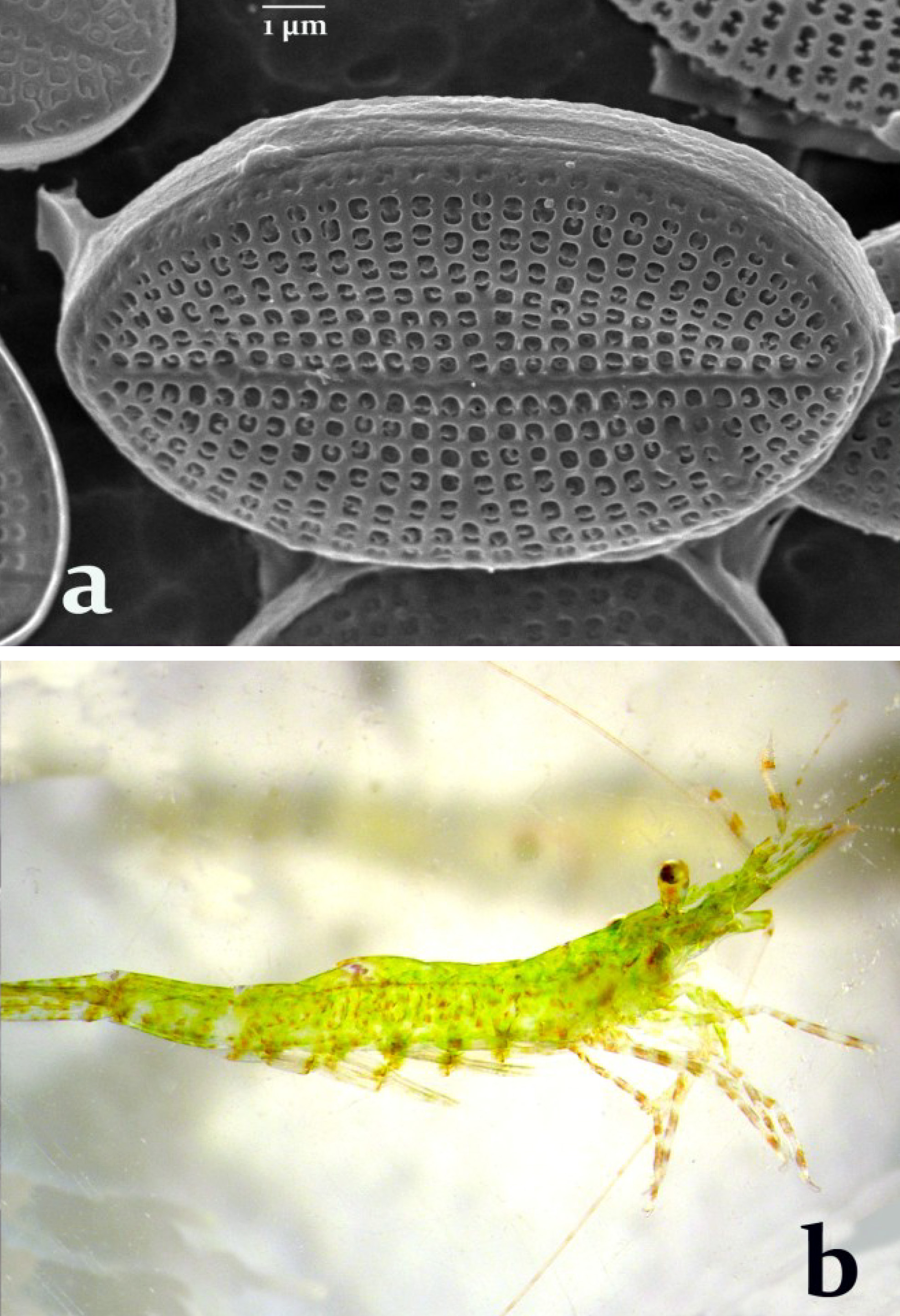 (a) Cocconeis scutellum parva observed under the SEM (7000×). (b) Hippolyte inermis, young male.